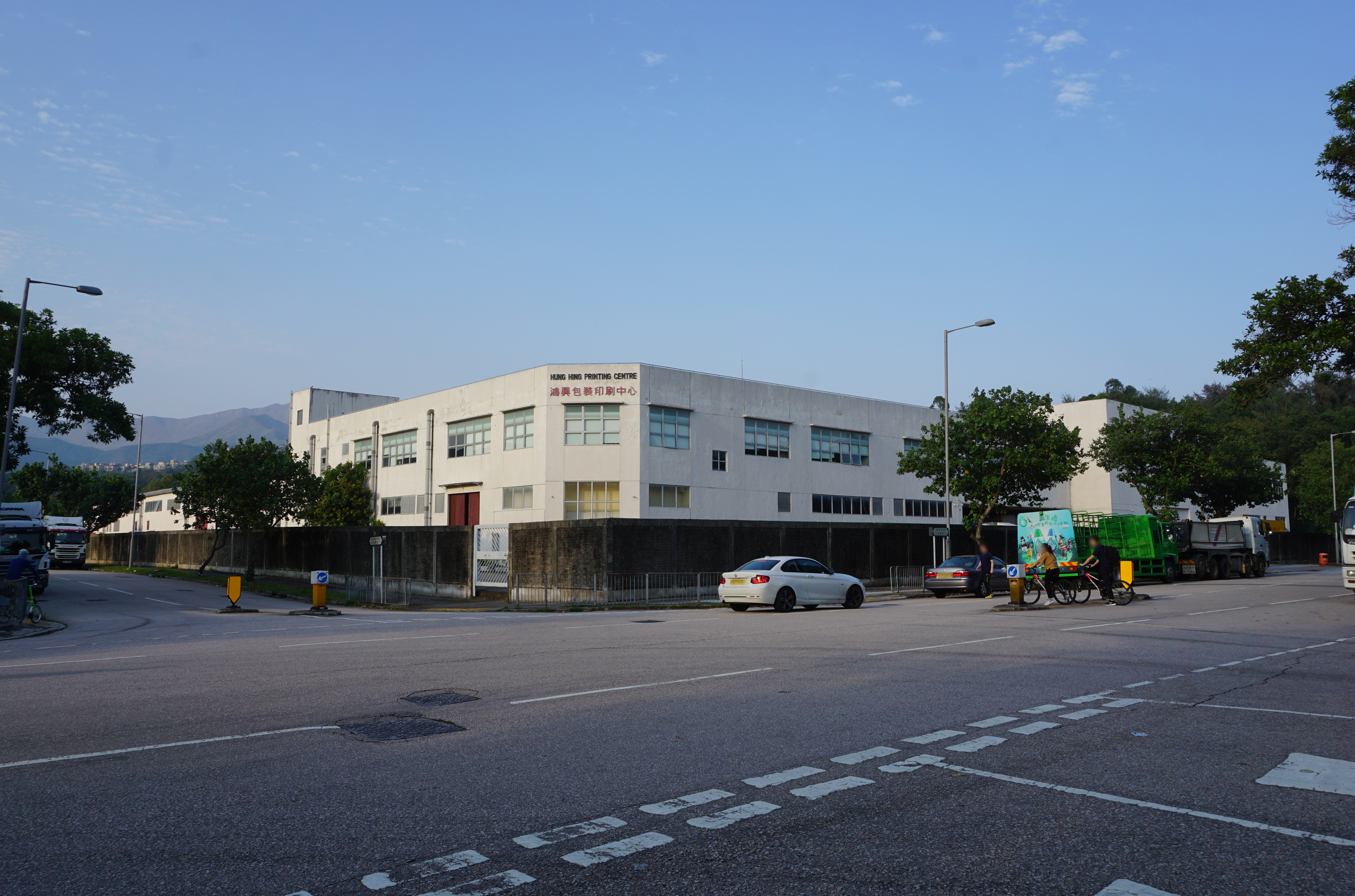 Hung Hing Printing Centre in Tai Po, Hong Kong.